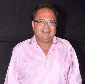 Colors indian telly awards